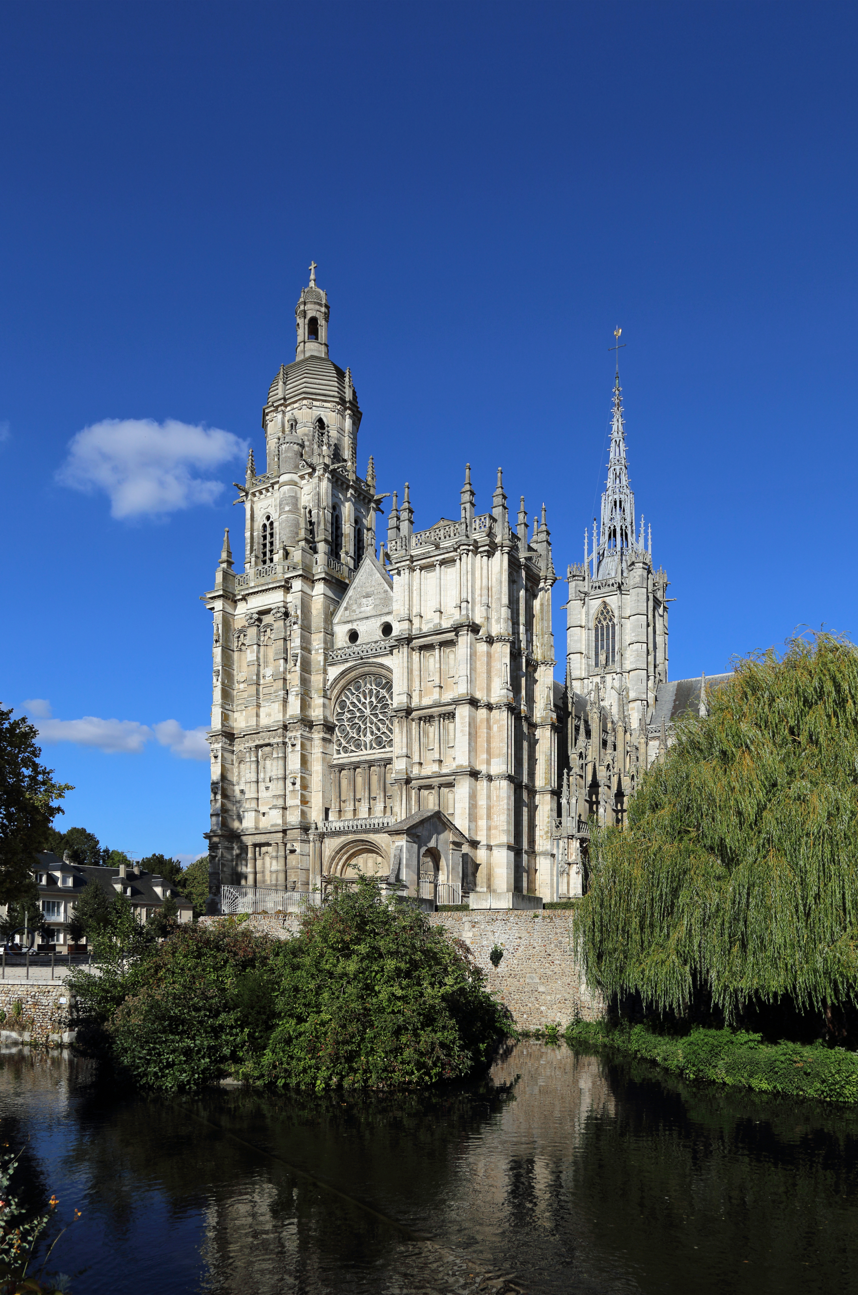 Évreux (Eure department, France): cathedral of Our Lady .